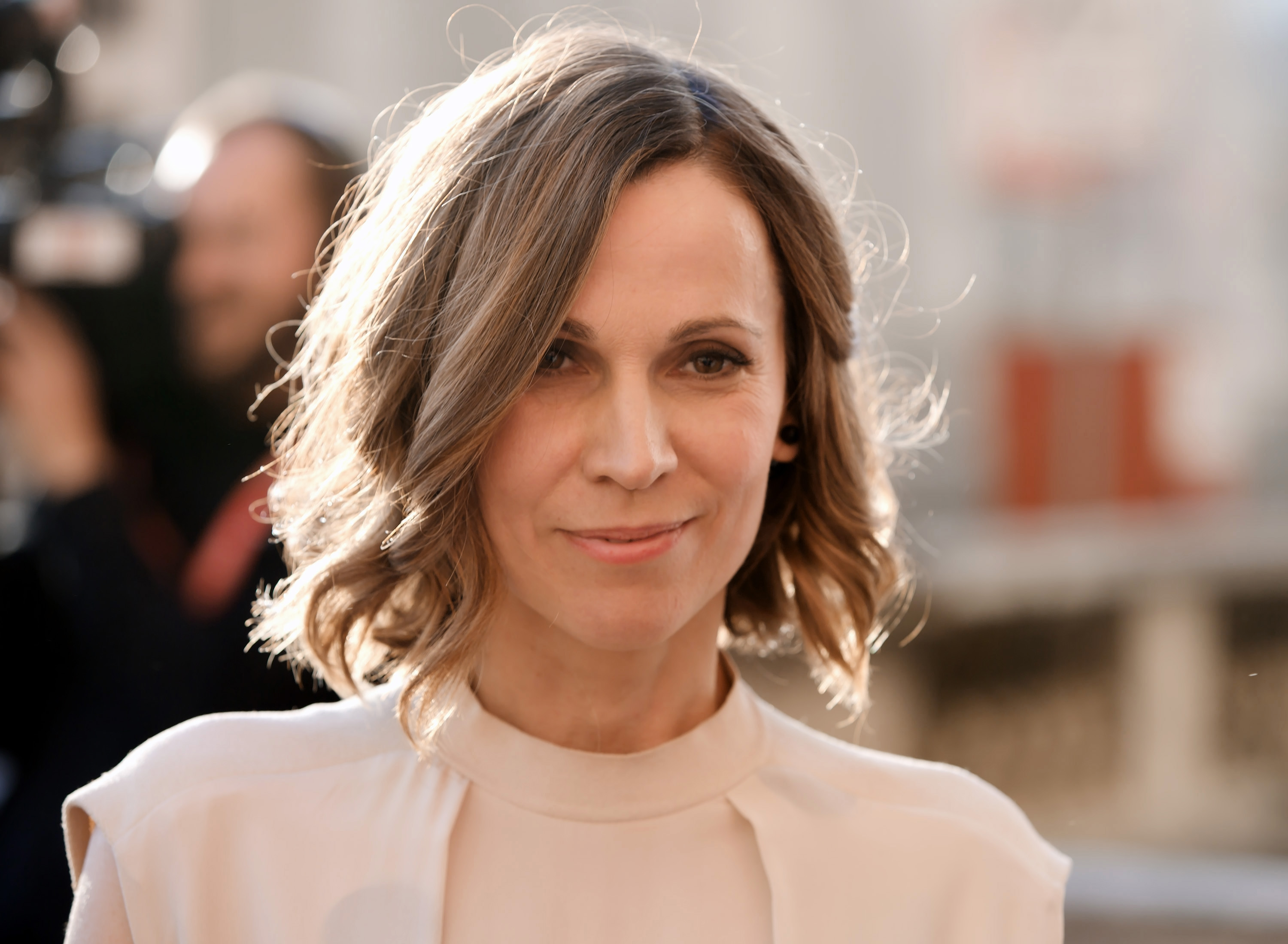 Doris Schretzmayer on the red carpet of the Romy TV awards at Hofburg Palace in Vienna, Austria.